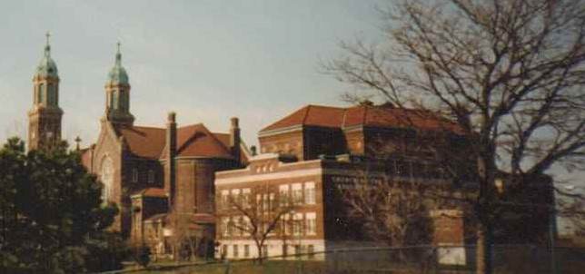 View of Our Lady of Black Rock School and Assumption of the Blessed from Buffalo State College, 2000.